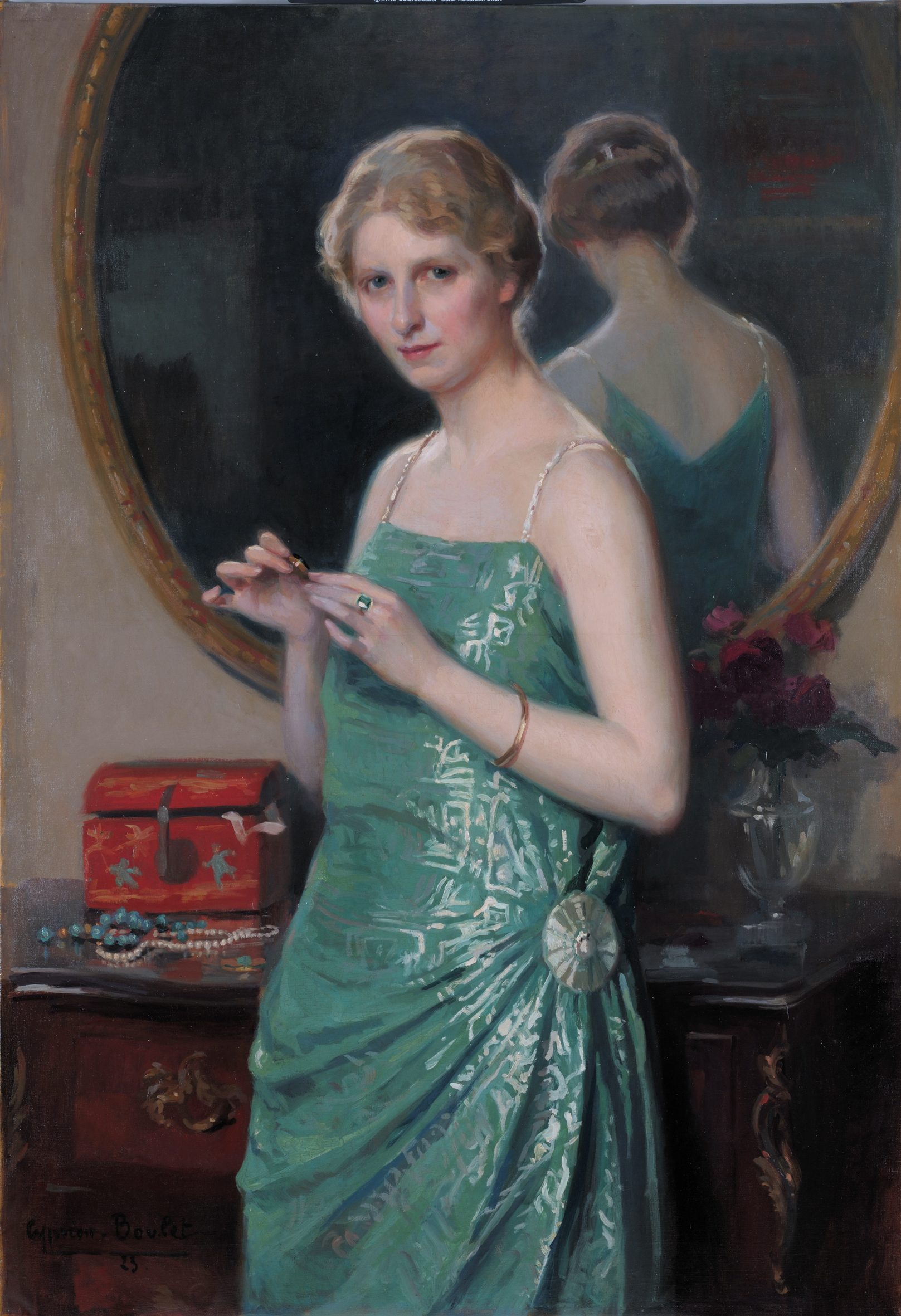 Madame Jean Trentesaux , née Yvonne Dewavrin (1896-1984) oil on canvas 1923